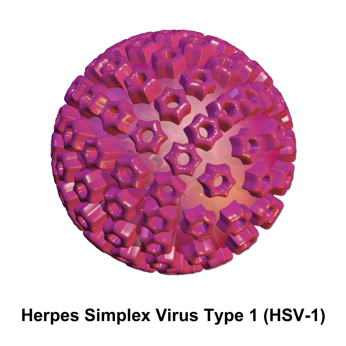 Herpes Virus. See a full animation of this medical topic.